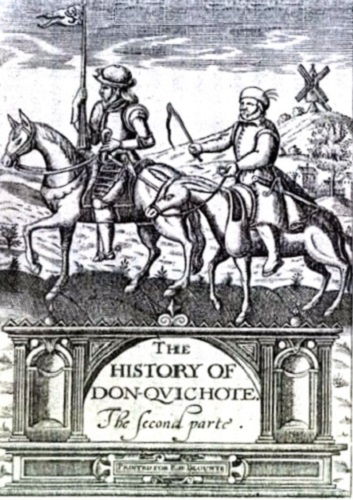 Don Quixote - Cover illustration for London edition